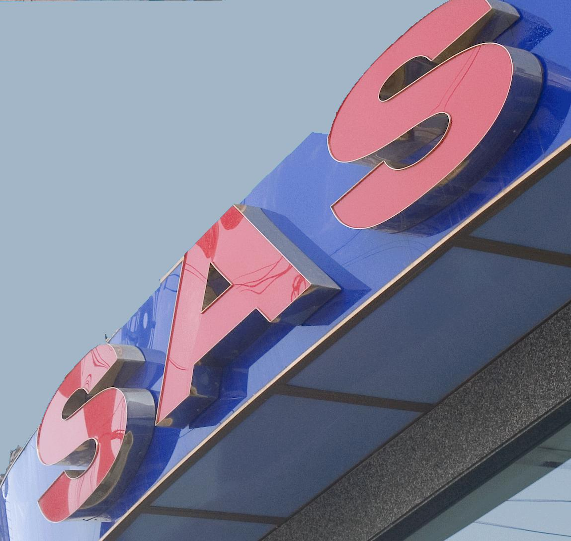 Building sign of SAS Supermarket